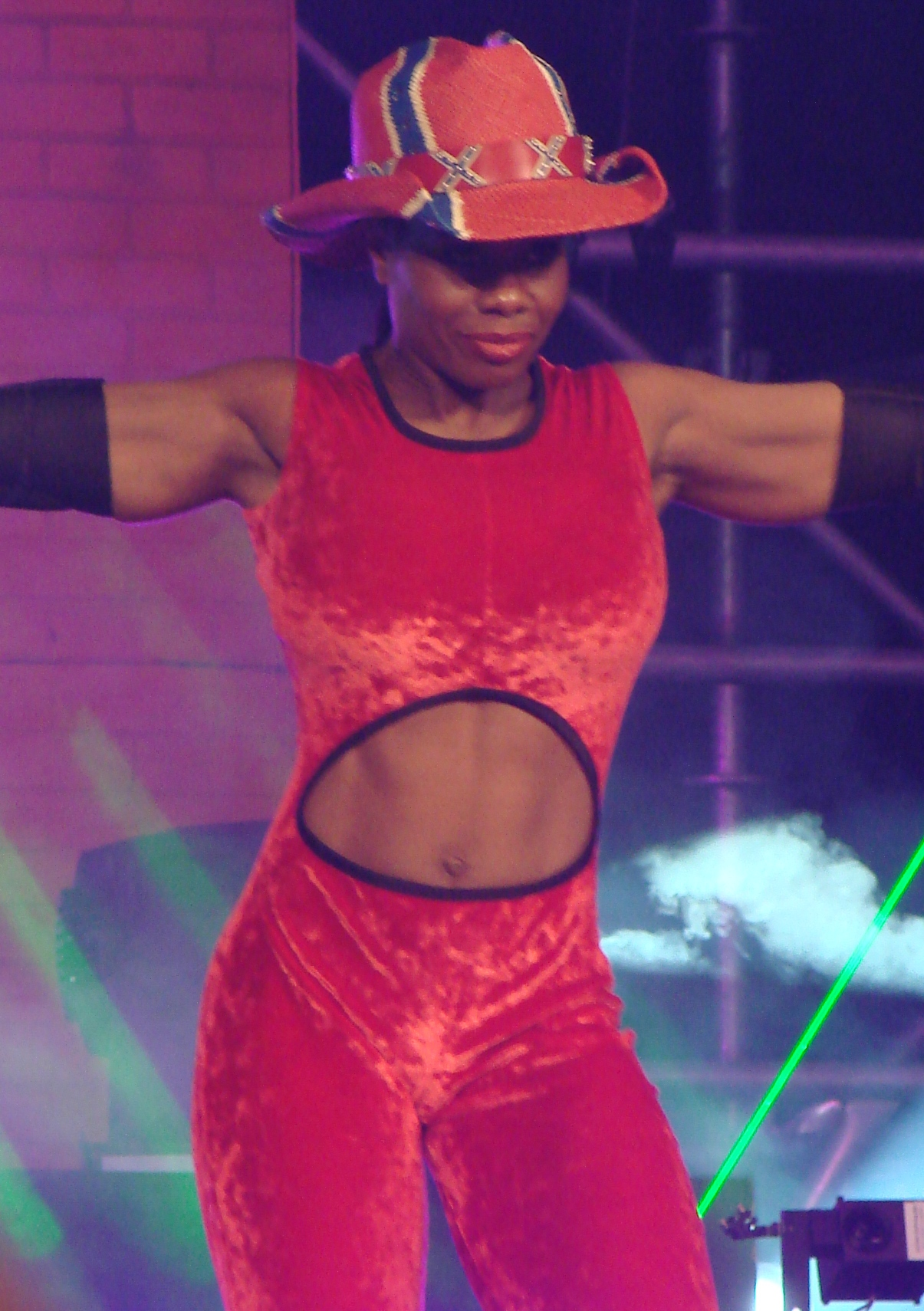 Jacqueline Moore at TNA Lockdown.